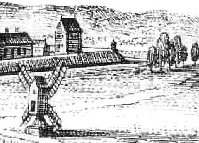 This is a scan of the historical document: Source